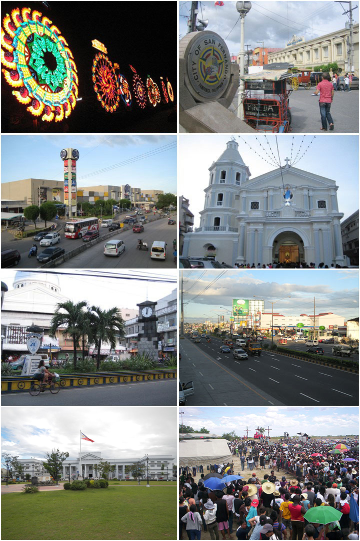 A montage of San Fernando, Pampanga, Philippines